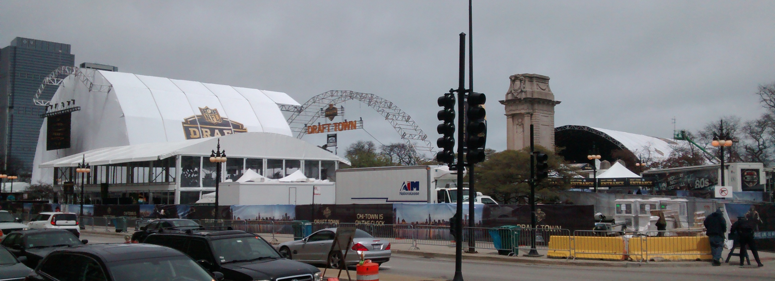 Draft Town for the 2015 NFL draft in Chicago, Illinois.